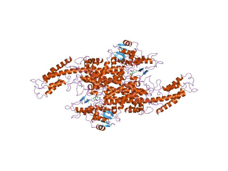 Cartoon representation of the molecular structure of protein registered with 1w27 code.